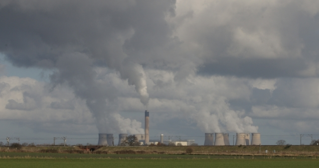 The Cloud Factory